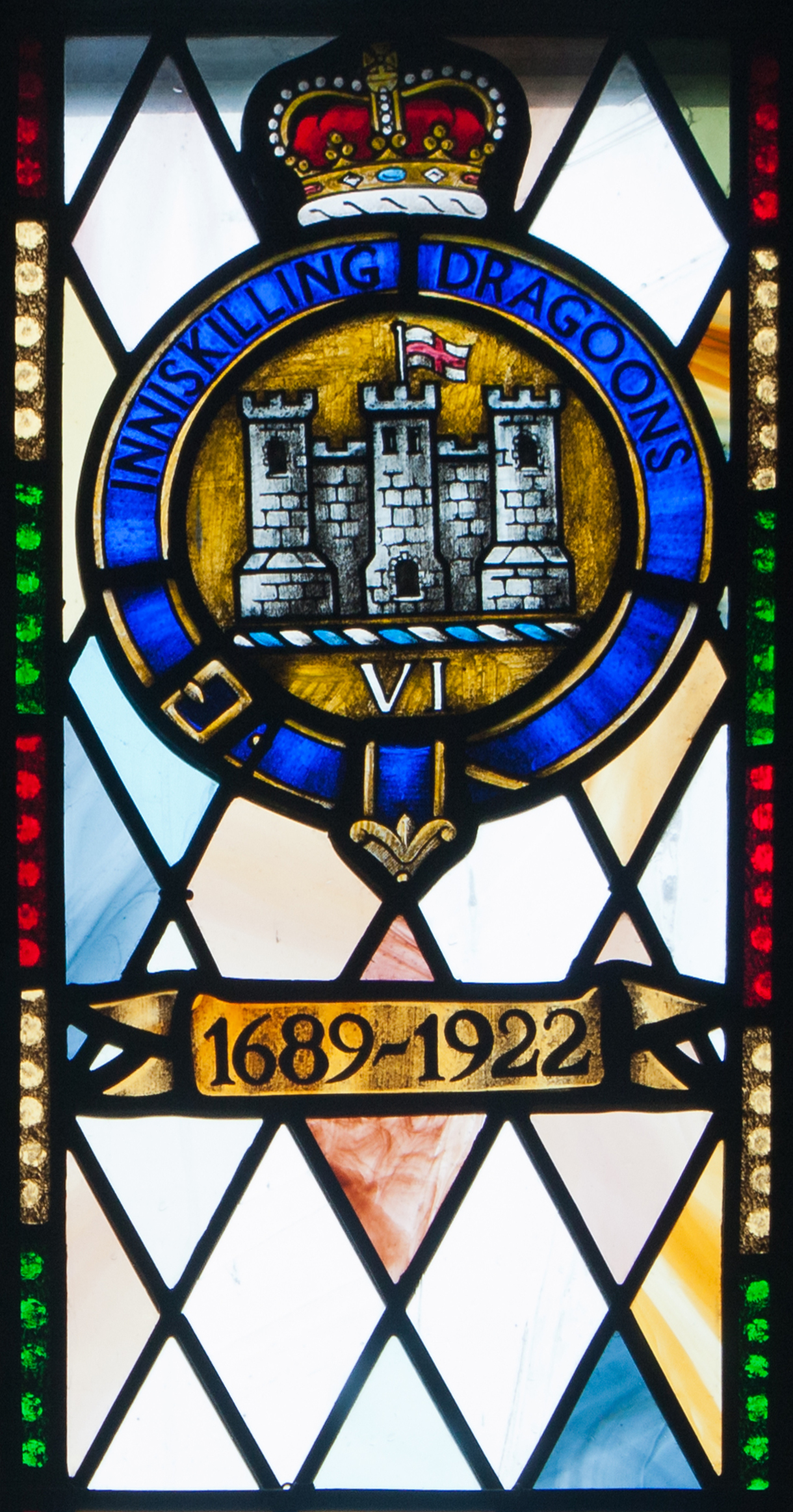 Stained glass window in the north aisle, depicting the insignia of the 5th Royal Inniskilling Dragoon Guards during its history. This is the insignia of the 6th Inniskilling Dragoons which was in use from 1689 to 1922. In 1922 this regimented amalgamated with the 5th Royal Inniskilling Dragoon Guards. Created by CWS Design in Lisburn, Co. Antrim.